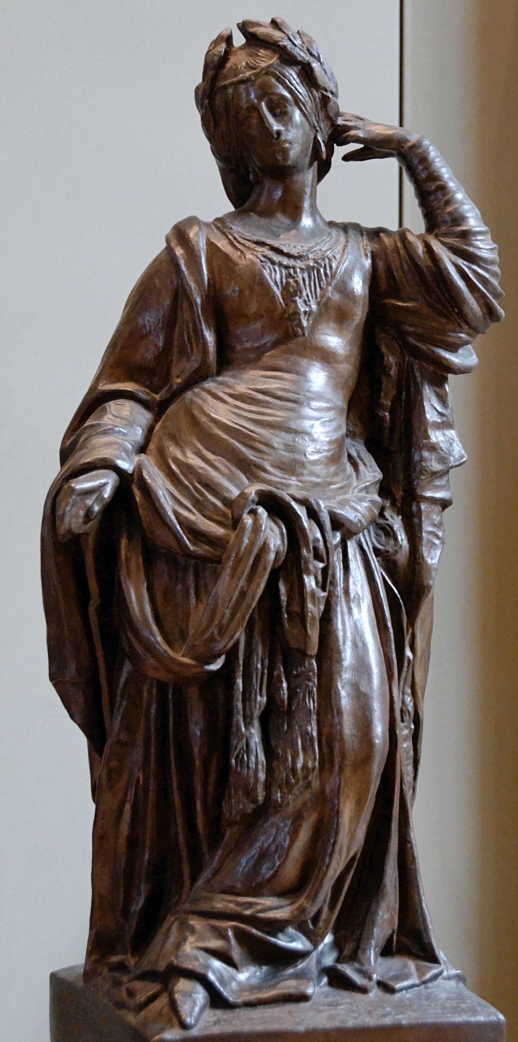 Clémence Isaure. Bronze cast by Victor Thiebaut in 1854, after a clay model by Préault.